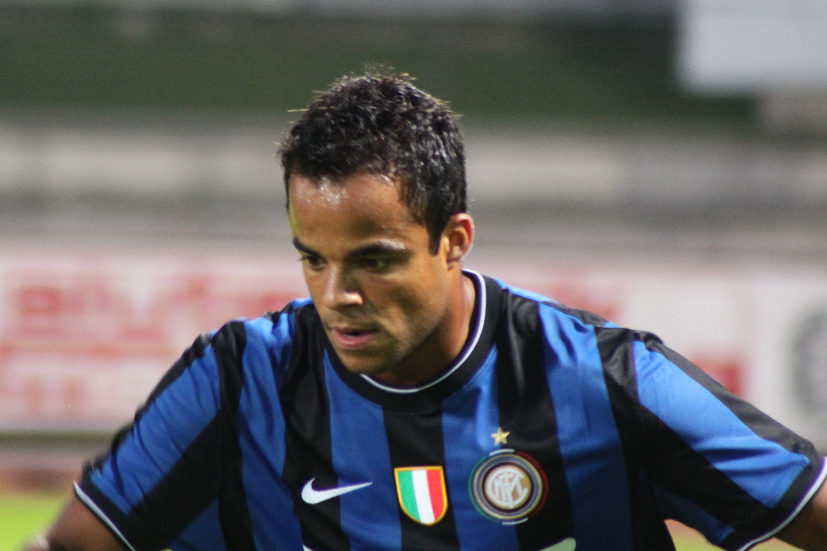 Mancini - F.C. Internazionale Milano it: Mancini - Football Club Internazionale Milano